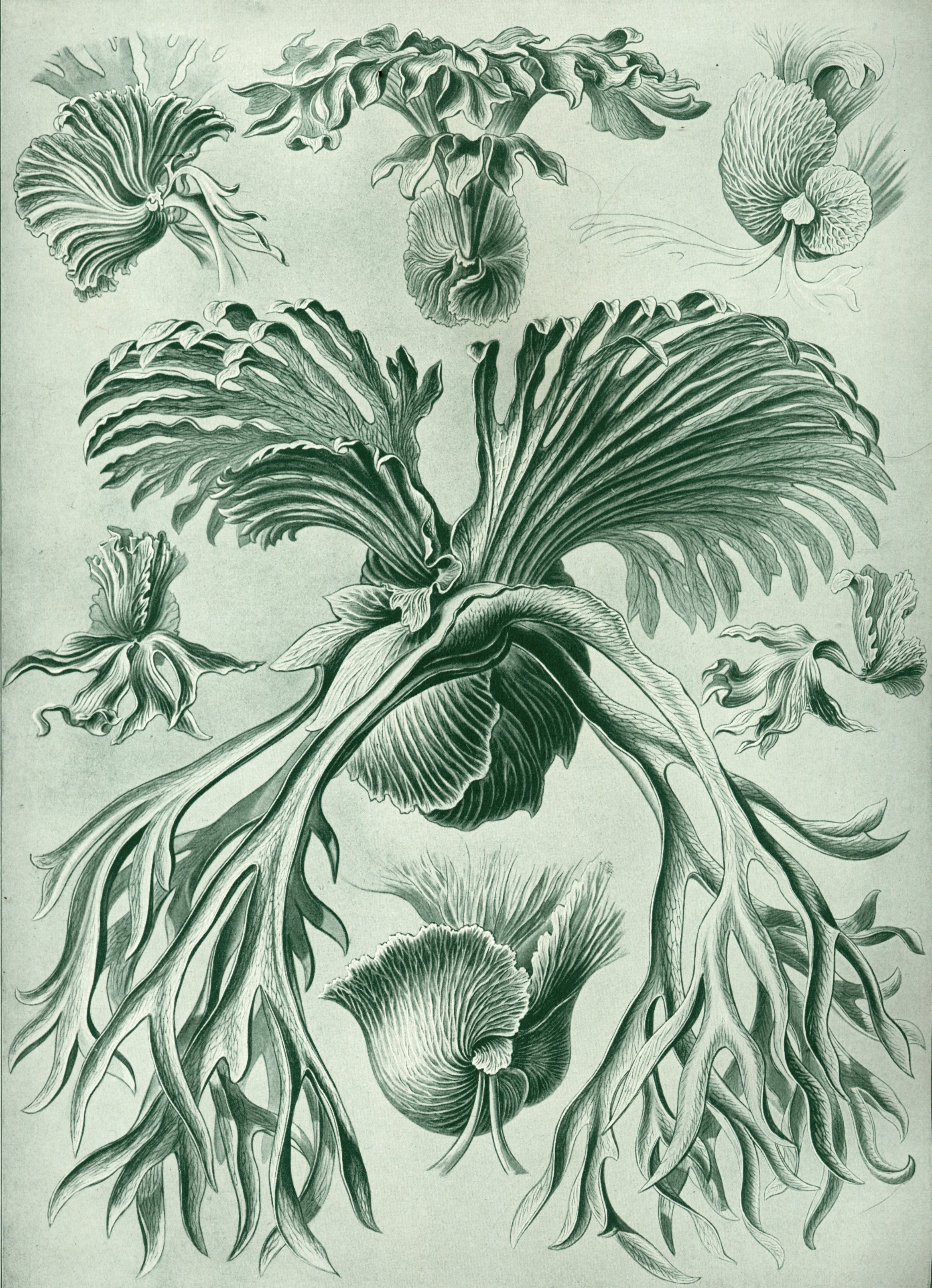 Platycerium grande (Hooker) = Platycerium grande J.Sm., habitus of young plant Platycerium grande (Hooker) = Platycerium grande J.Sm., young basal frond Platycerium grande (Hooker) = Platycerium grande J.Sm., older basal frond Platycerium grande (Hooker) = Platycerium grande J.Sm., old basal frond Platycerium stemmaria (Beauvais) = Platycerium stemaria (P.Beauv.) Desv., habitus of young plant Platycerium stemmaria (Beauvais) = Platycerium stemaria (P.Beauv.) Desv., habitus of young plant Platycerium Hilli (Moore) = Platycerium hillii T. Moore, habitus of young plant